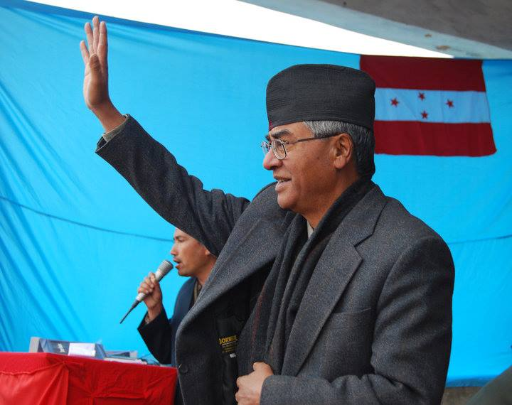 Sher Bahadur Deuba, senior leader of Nepali Congress, Former Prime Minister of Nepal